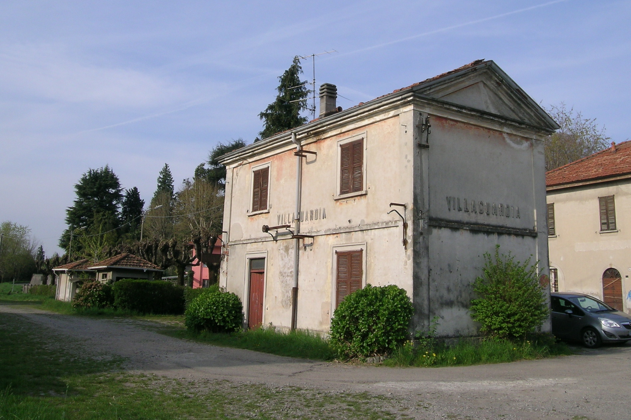 Former FNM railway station in Villa Guardia